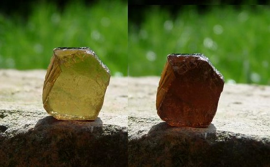 Pleochroism of tourmaline illustrated by rotating a linear polarizer on the lens of the camera.